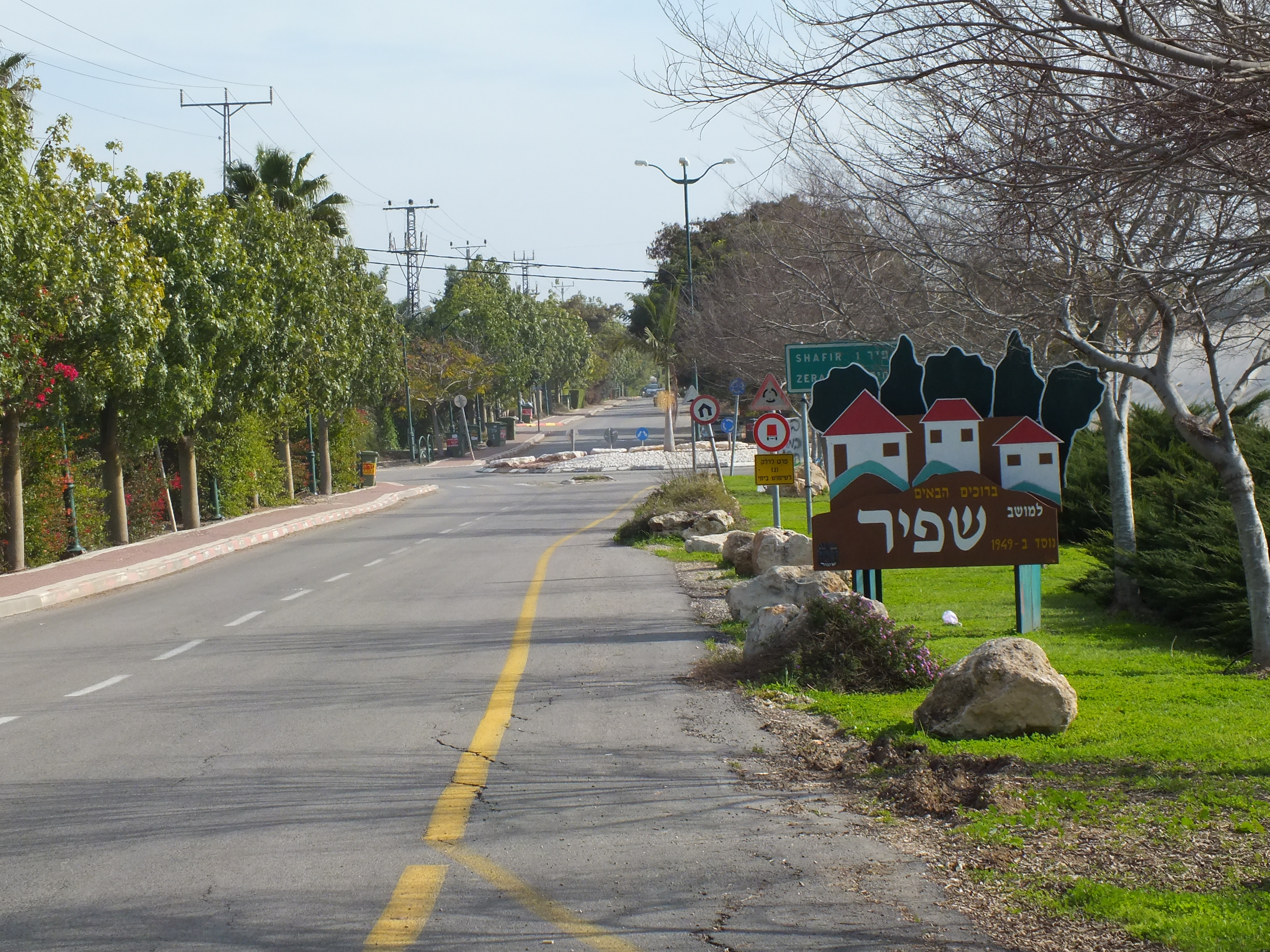 Shafir is a moshav of religious dudes in the Shfela Plain off Road 3.